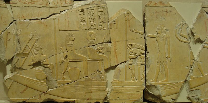 Relief from the Theban Tomb of the vizier Nespekashuty, Brooklyn Museum